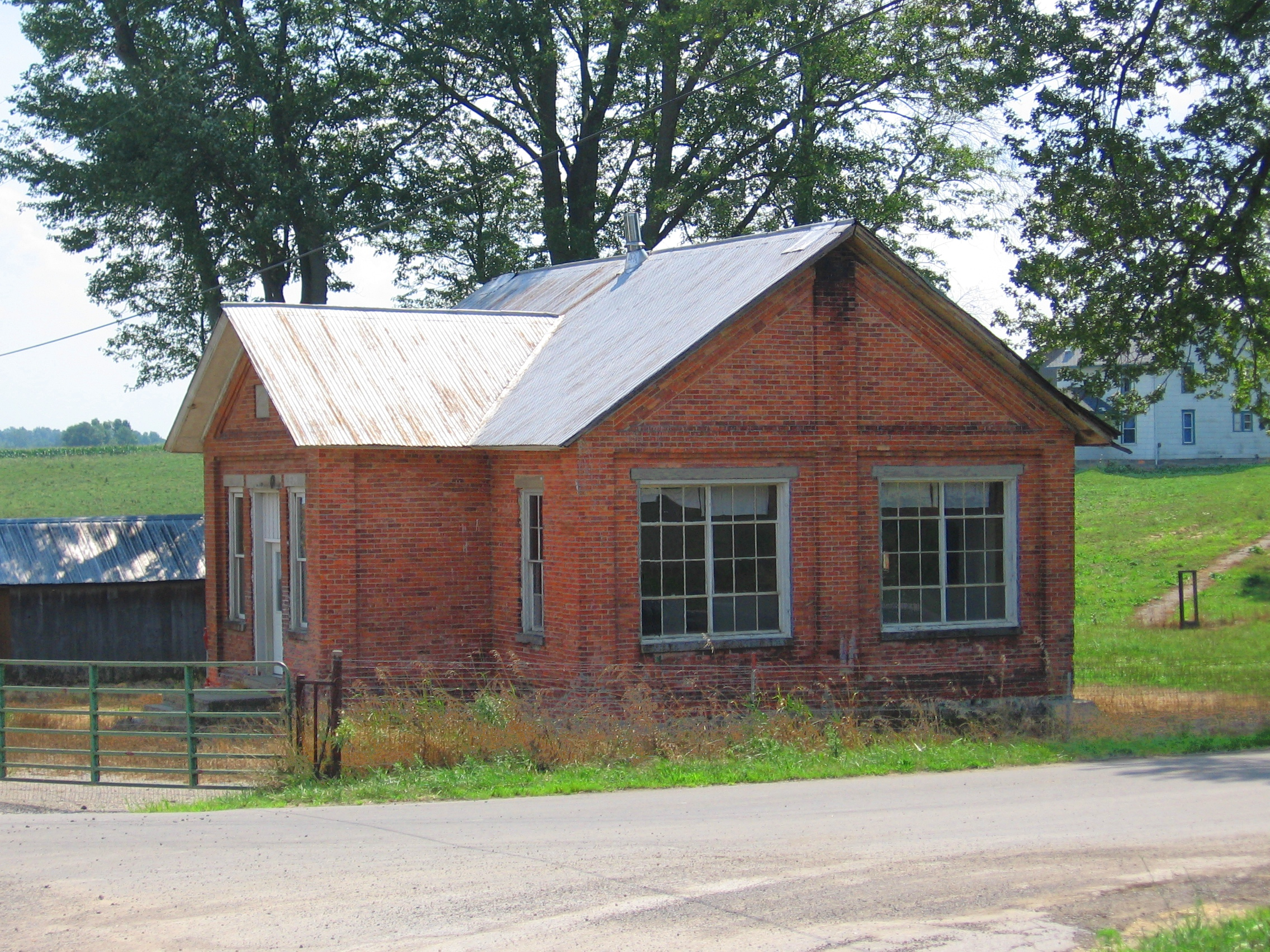 An old brick house in Alvarado, Indiana, USA on the southwest corner of the main intersection.